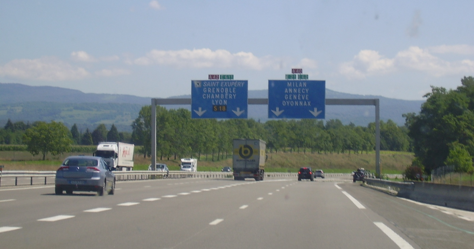 Exchanger between A40 (Milan, Genève) and A42 (Lyon). Image cropped; taken from right rear seat of the car.